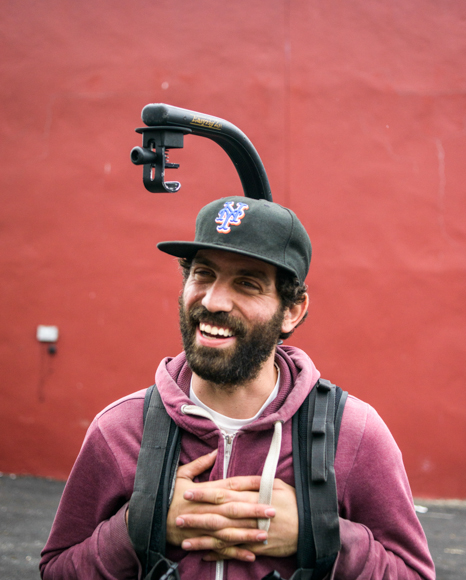 Joshua Z Weinstein on set